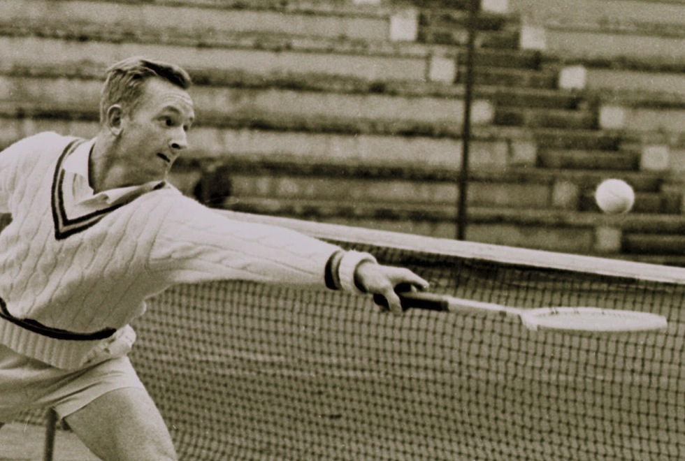 Rome (Italy), May 13, 1962. Australia's Rod Laver reaches to hit a return to Yugoslavia's Boro Jovanović during their men's singles semi-final match in the XIX Italian International Tennis Championship; Laver won 7-5, 9-7, 6-1.